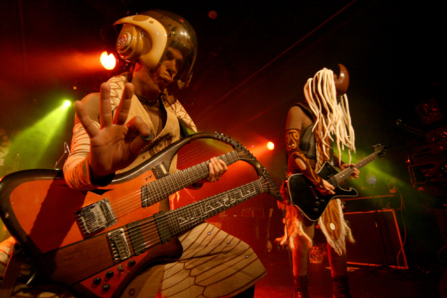 Blasted Mechanism in A38 ship, Budapest.